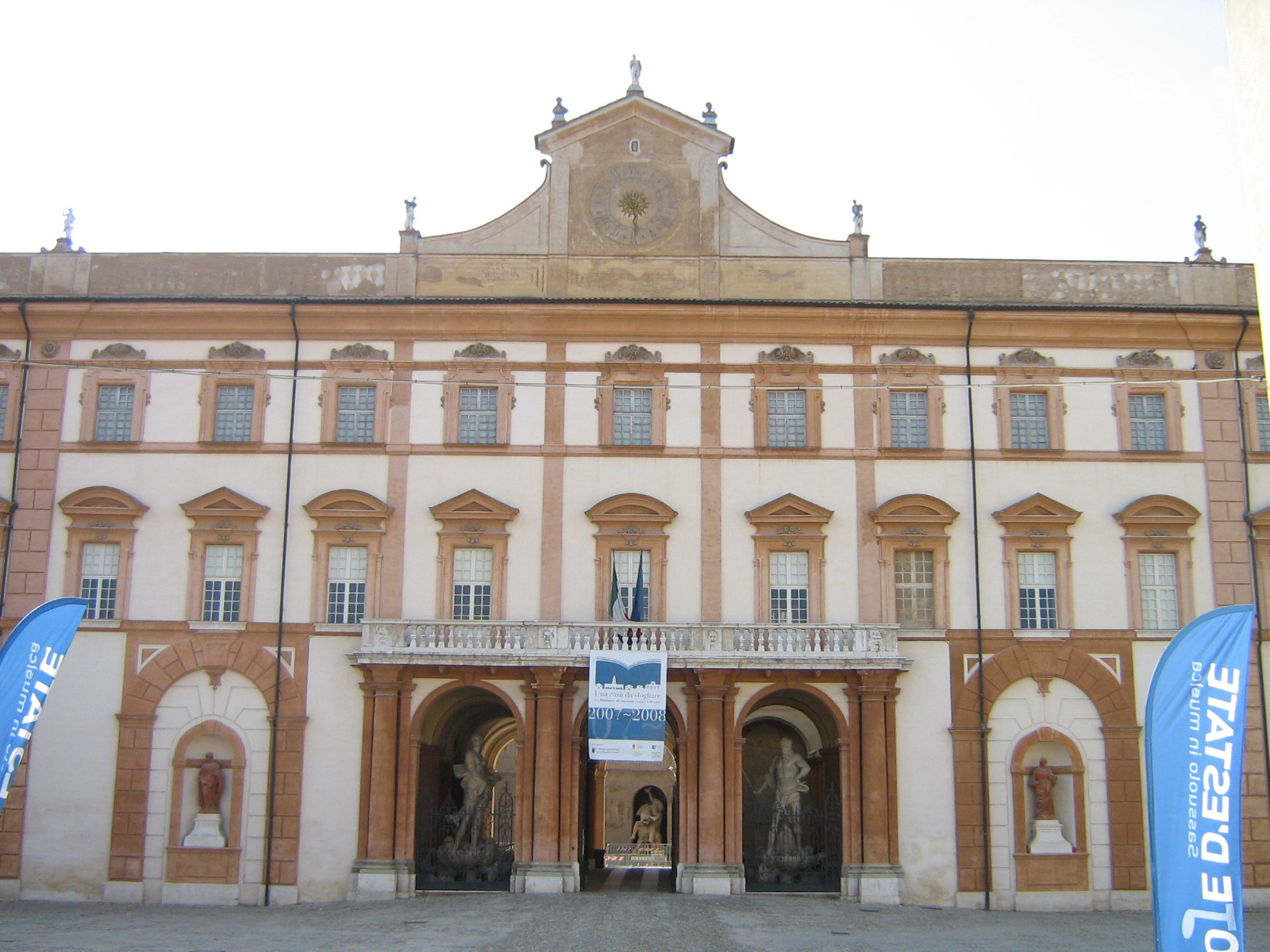 Main façade of the ducal palace in Sassuolo, province of Modena, Italy